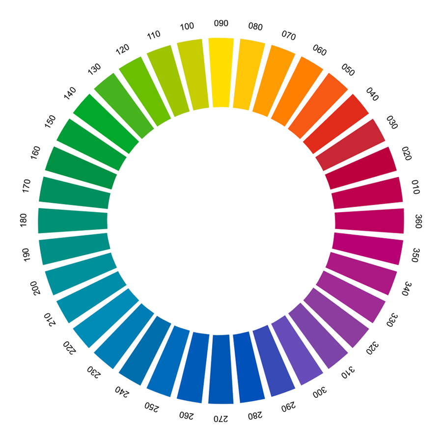 The CIELAB color circle displays the most saturated colors for 36 Hues.